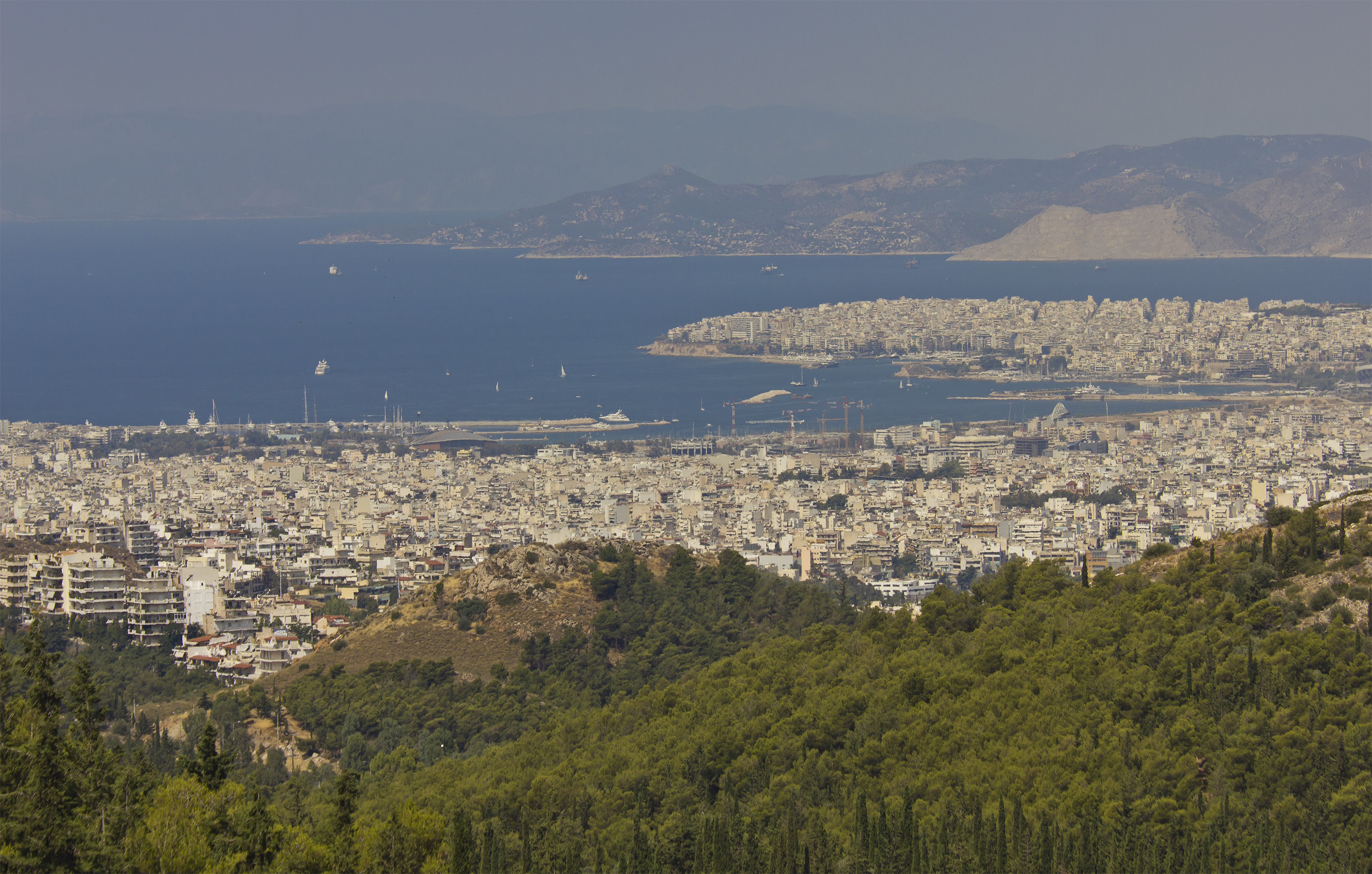 View from Kaisariani Hill to the suburbs of Athens (Attica, Greece)